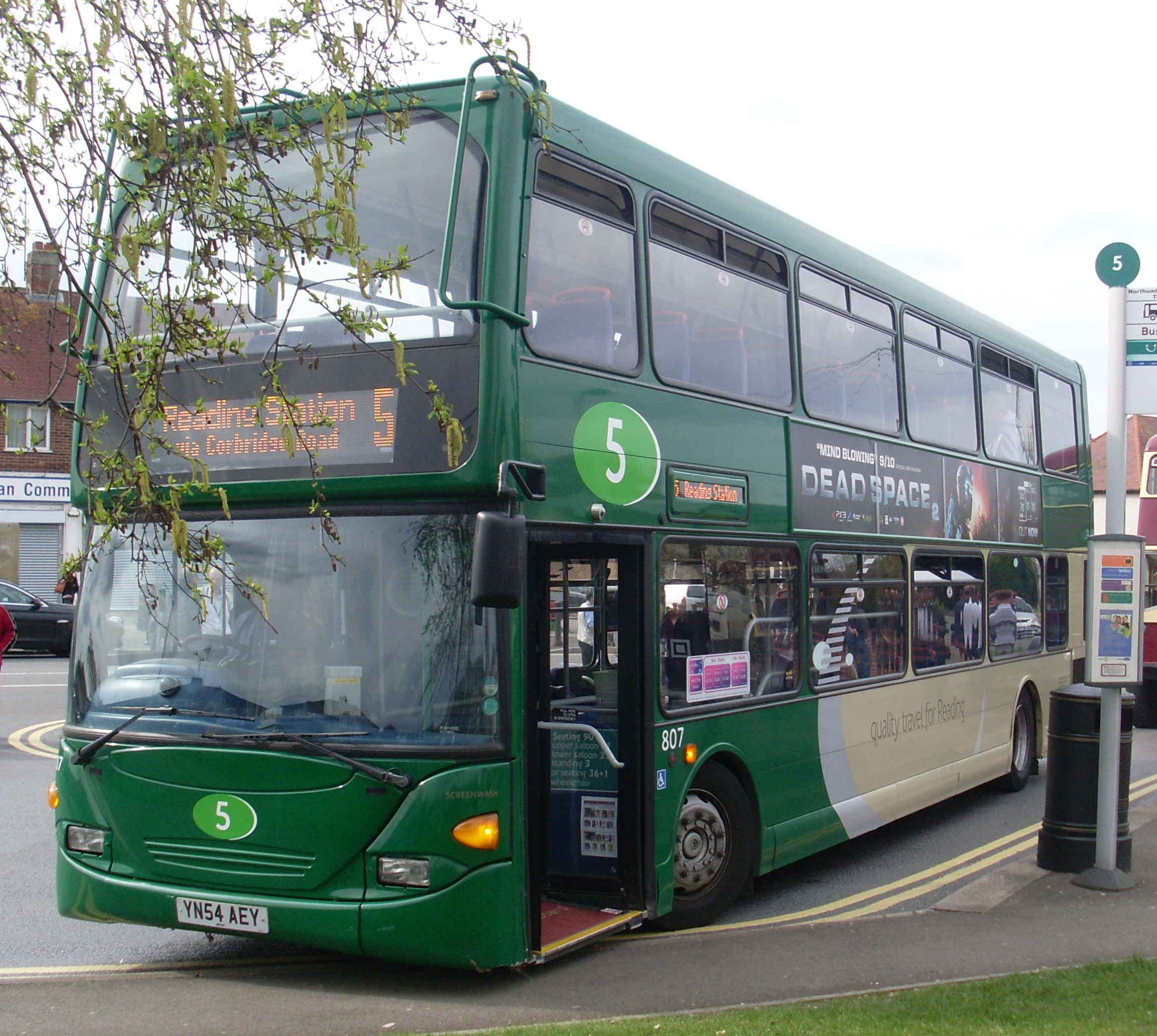 A Reading Transport bus on route 5 at the Northumberland Avenue terminus in Reading, Berkshire. The bus is a Scania N94UD OmniDekka, registration mark YN54 AEY, fleet number 807.